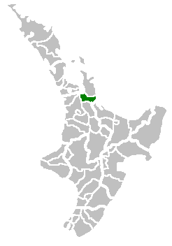 Location of Hauraki Territorial Authority, NZ